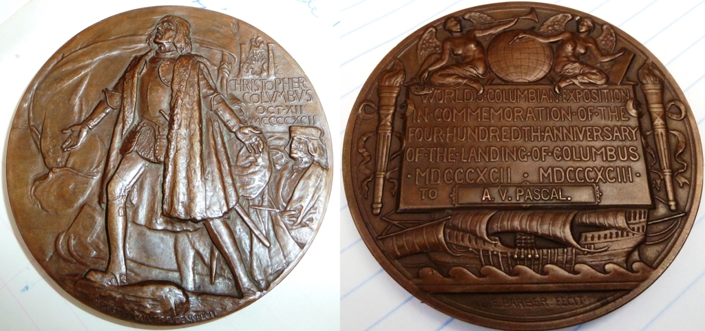 Agustin V. Pascal commemorative medal of the World's Columbian Exposition in Chicago, 1893.